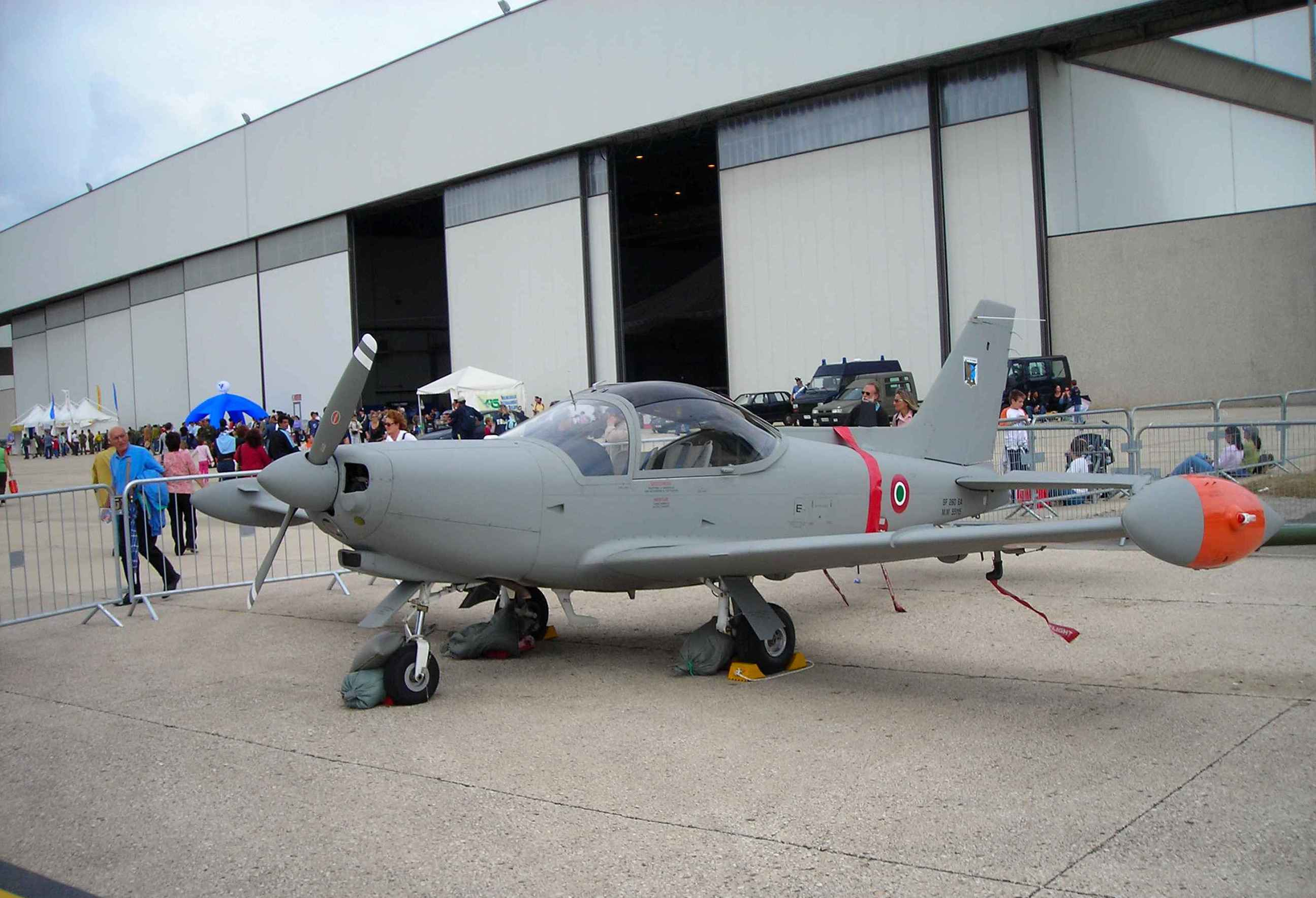 The Aermacchi (originally SIAI-Marchetti) SF-260EA used by Italian Air Force. Picture taken during "Giornata Azzurra" 2006 (Italian Air Force airshow) at Pratica di Mare AFB, Italy.